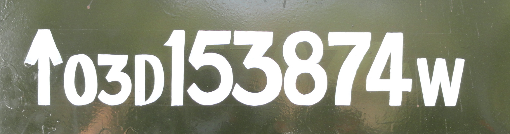 Registration plate of an Indian Army truck